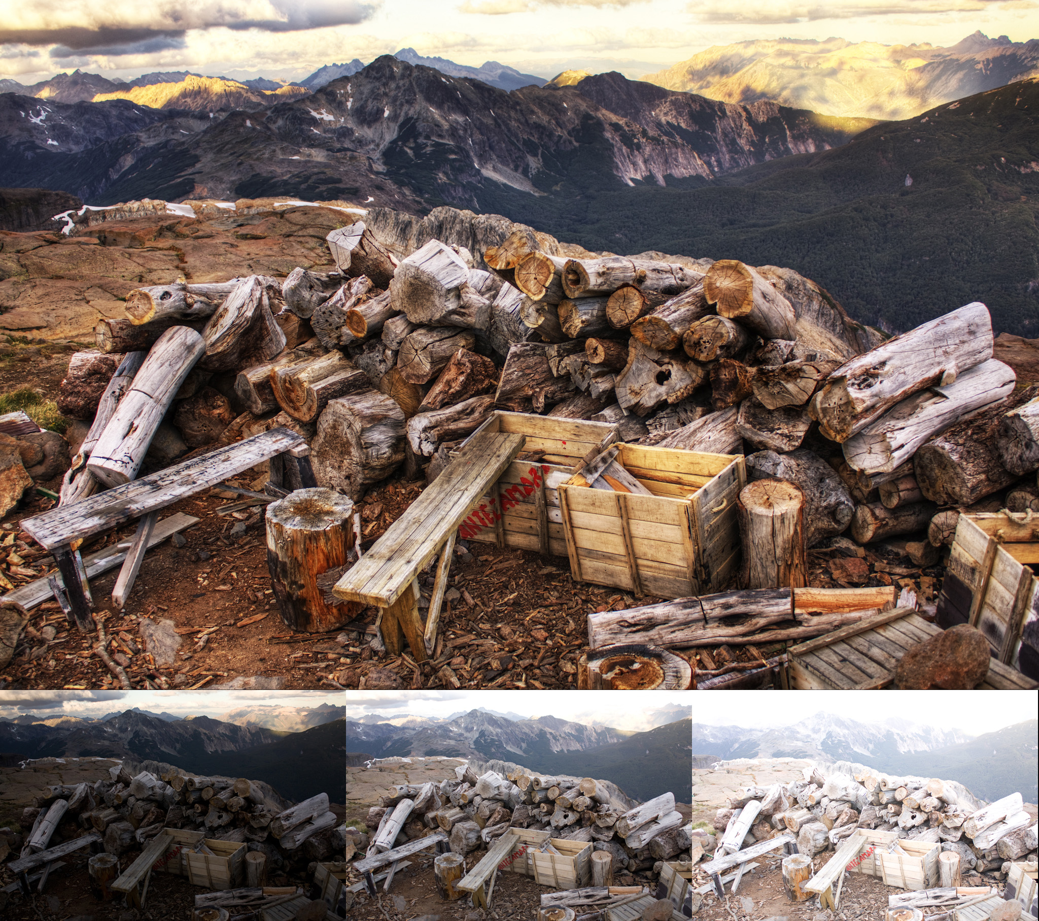 High-dynamic-range (HDR) image made out of three pictures. Taken in Cerro Tronador, Argentina.